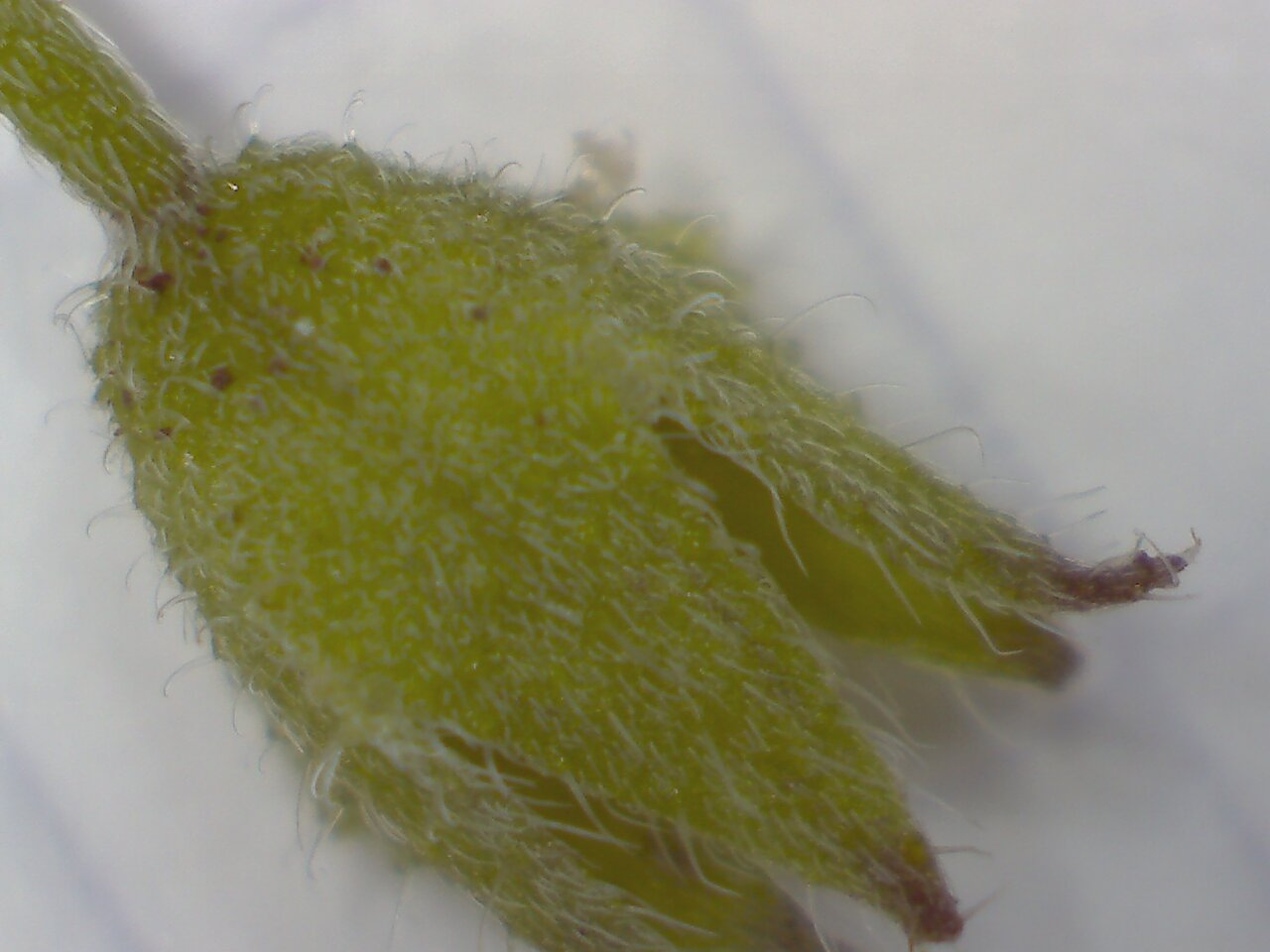 Myosotis sylvatica: calyx, background lines are 5mm apart.